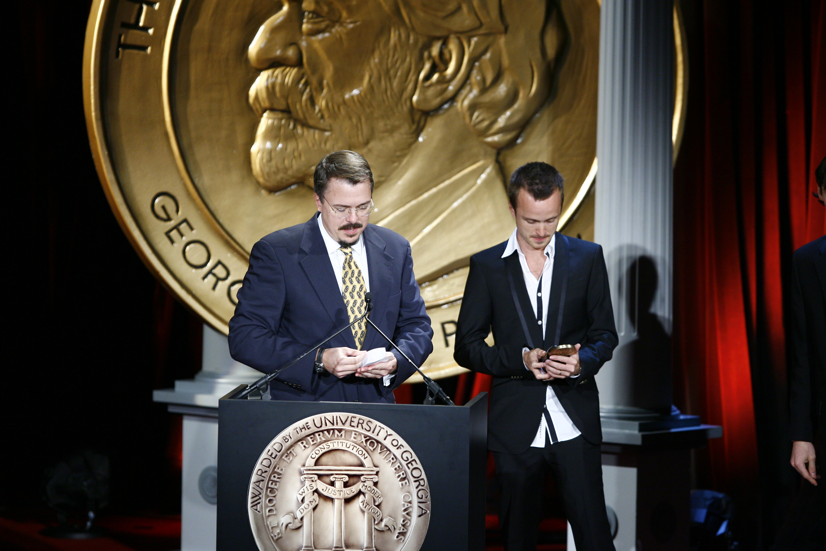 PHOTO CREDIT: ANDERS KRUSBERG / PEABODY AWARDS Vince Gilligan and Aaron Paul 69th Annual Peabody Awards Luncheon Waldorf=Astoria Hotel New York, NY USA May 17, 2010